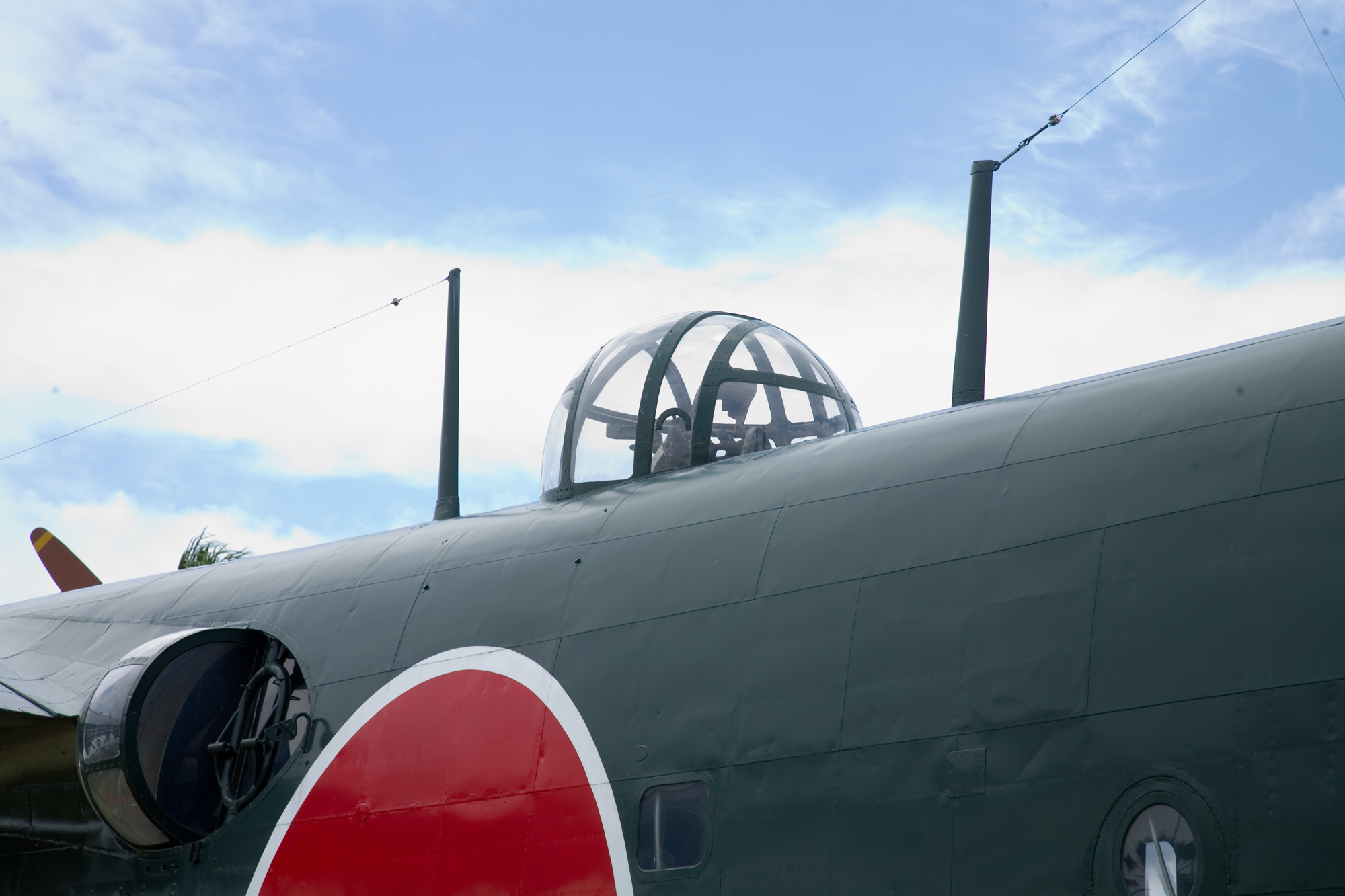 Detail of the top gunner position of a Kawanishi H8K2 Type 2 flying boat at Kanoya Museum in Japan. It was codenamed Emily by allied force. This example is manufacture 426.